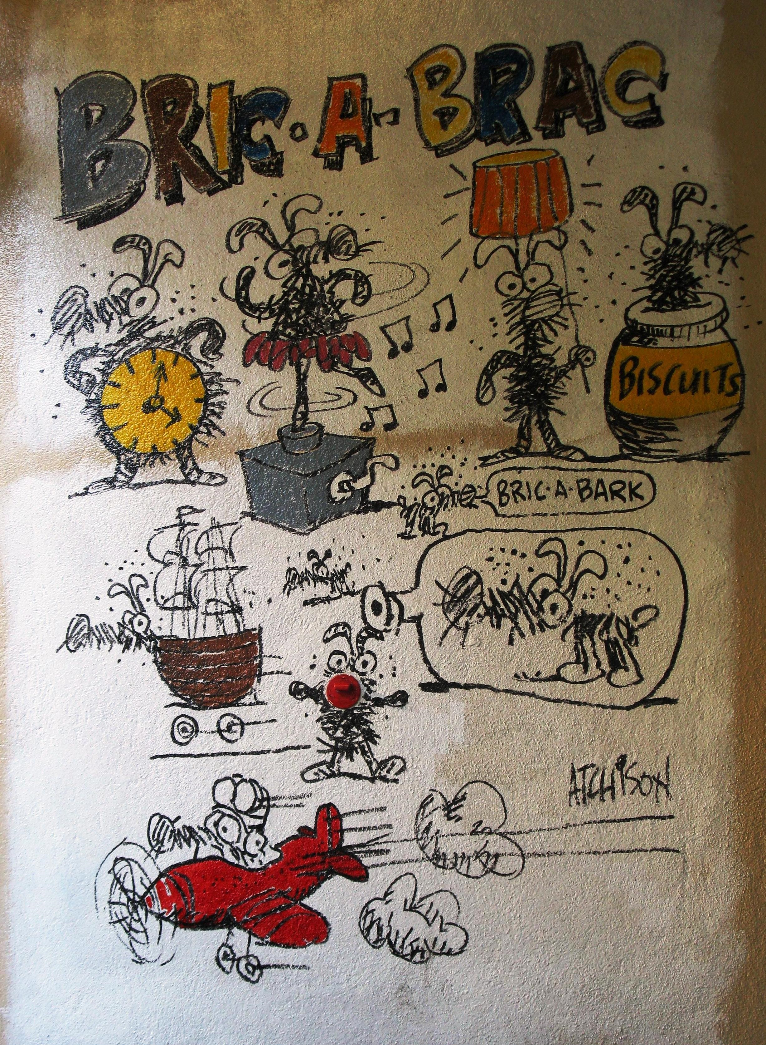 Mural by Michael Atchison OAM (1933–2009)